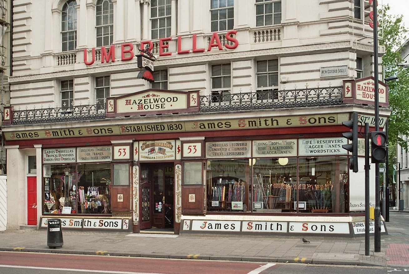 Traditional umbrella shop; London, New Oxford Street